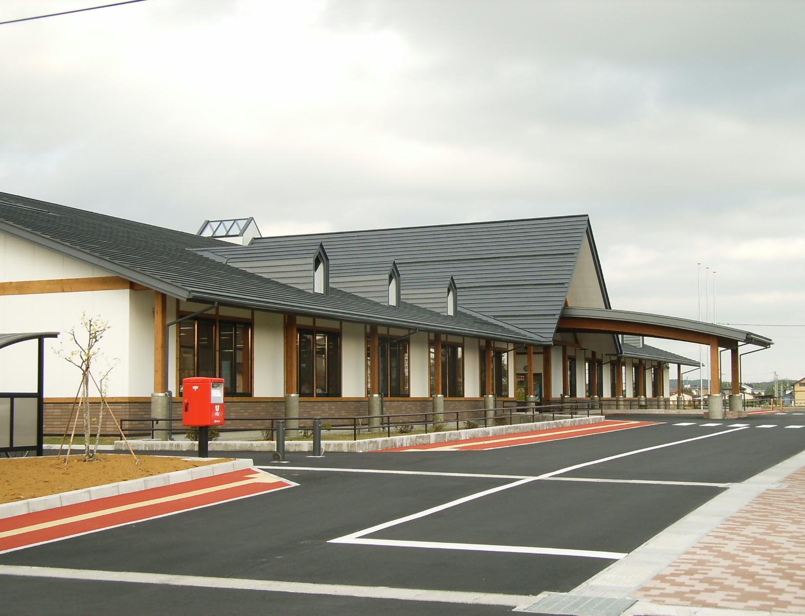 The Kurikoma Branch of the Kurihara City Office. Kurihara, Miyagi prefecture, Japan.